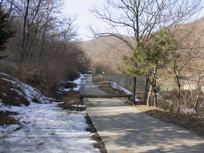 Hoemunsan, Jeollabuk-do, South Korea